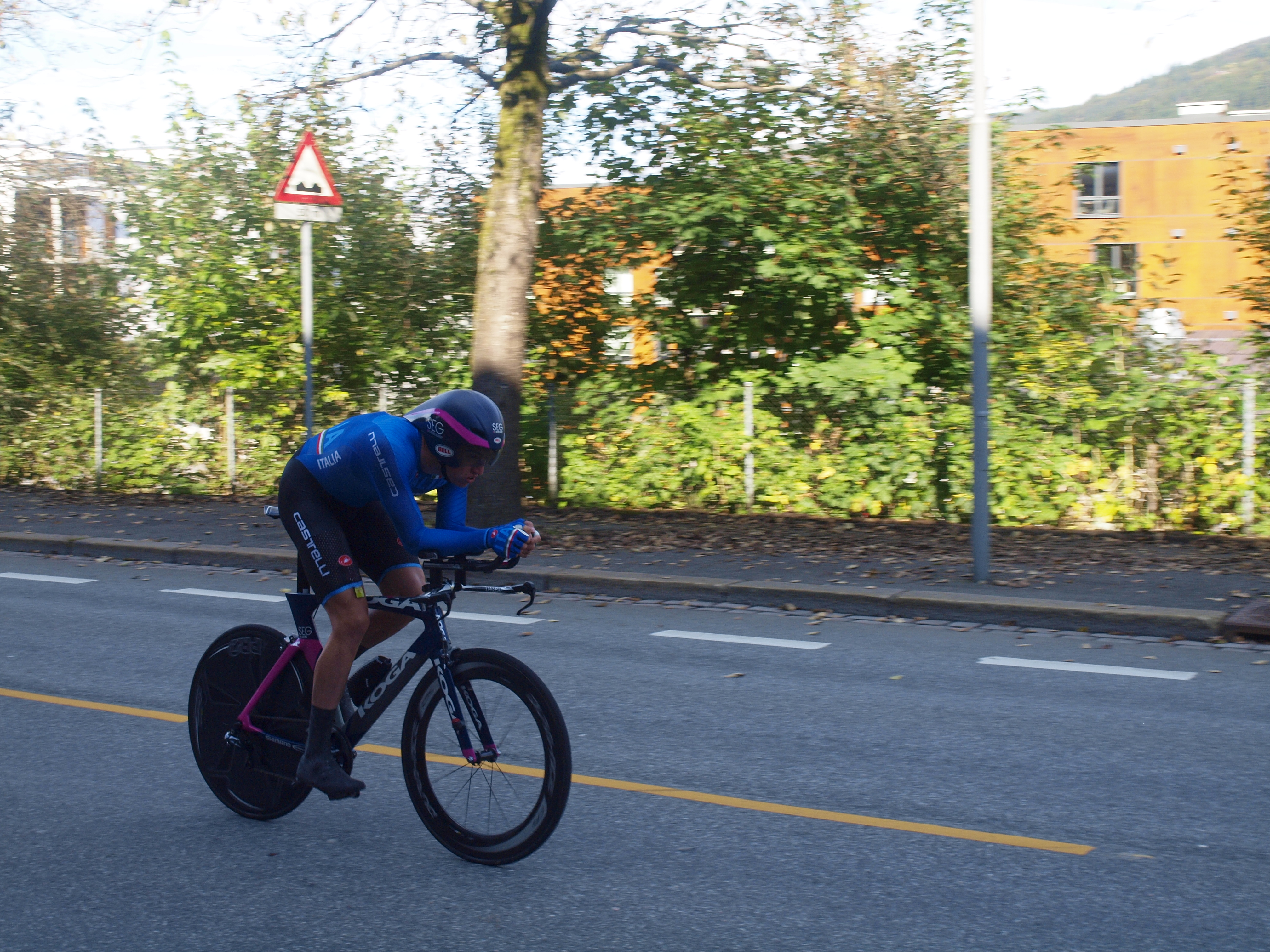 Edoardo Affini at the 2017 UCI World Championships